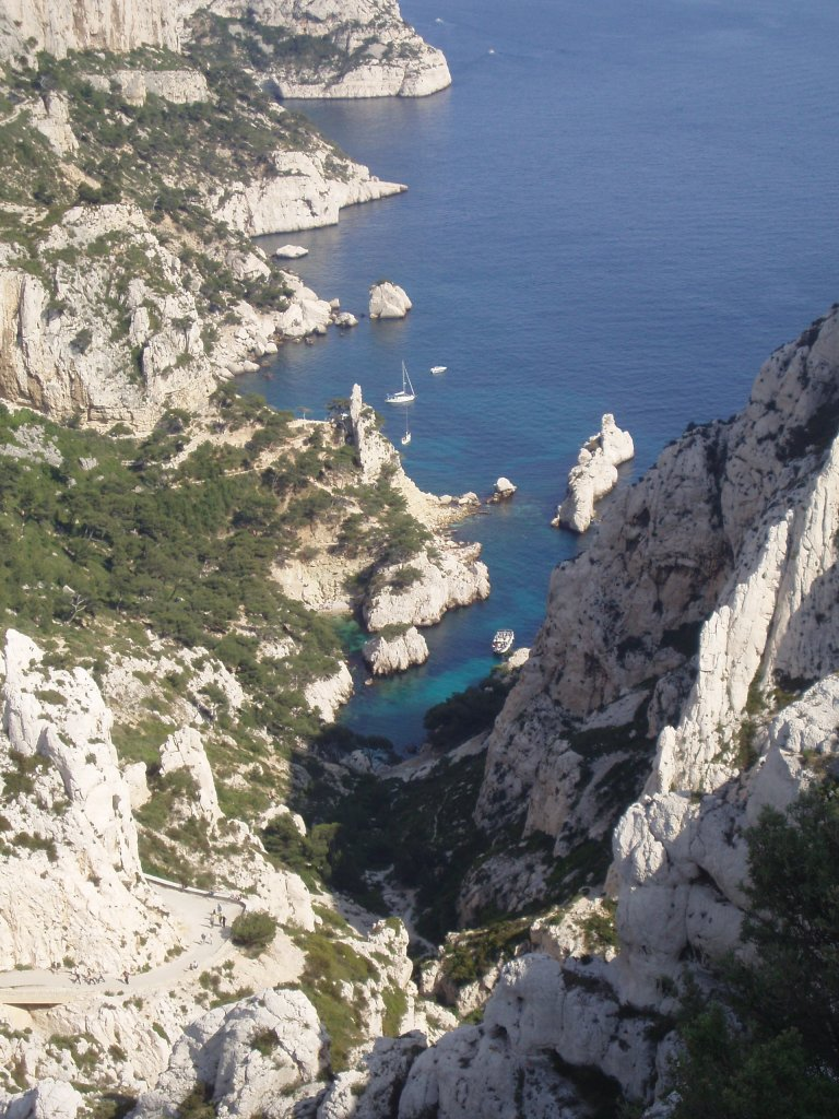 Calanque de Sugiton.